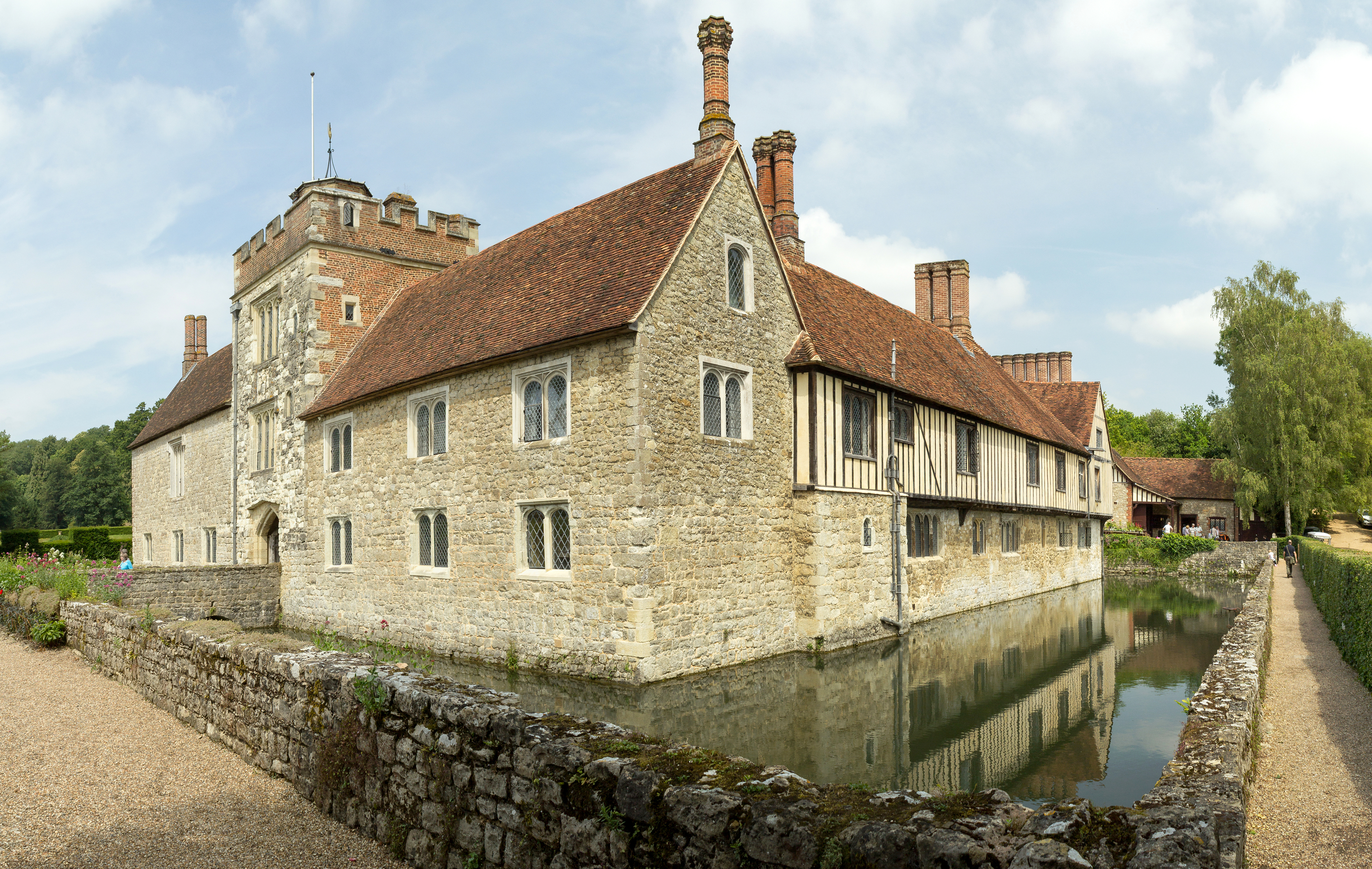 Ightham Mote, west and south side.